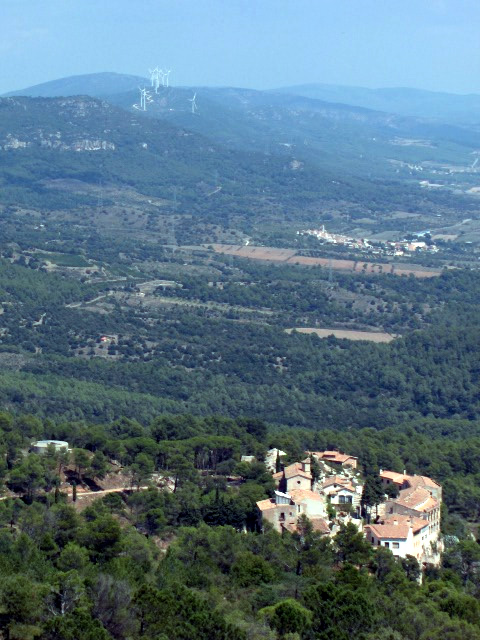 Village of Miramar and Figuerola del Camp in middle therm, in the alt Camp, in Catalonia, as a touristic destination close to Barcelona